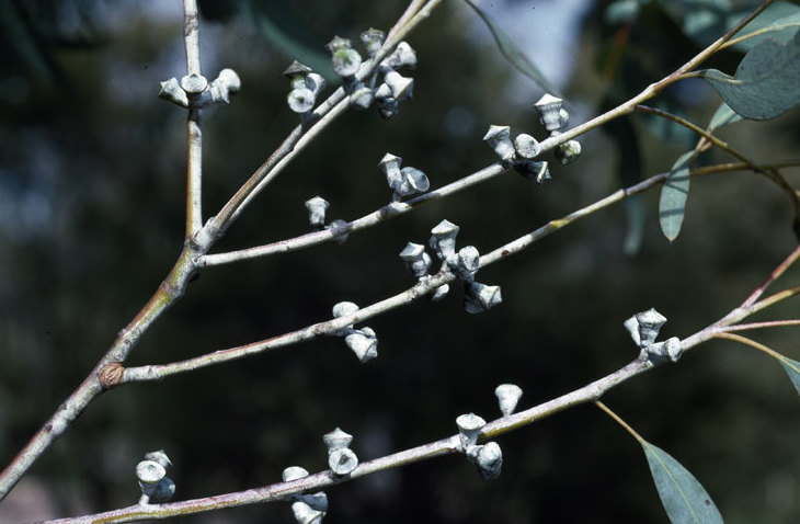 Fruit of Eucalyptus saxatilis in the Australian National Botanic Gardens